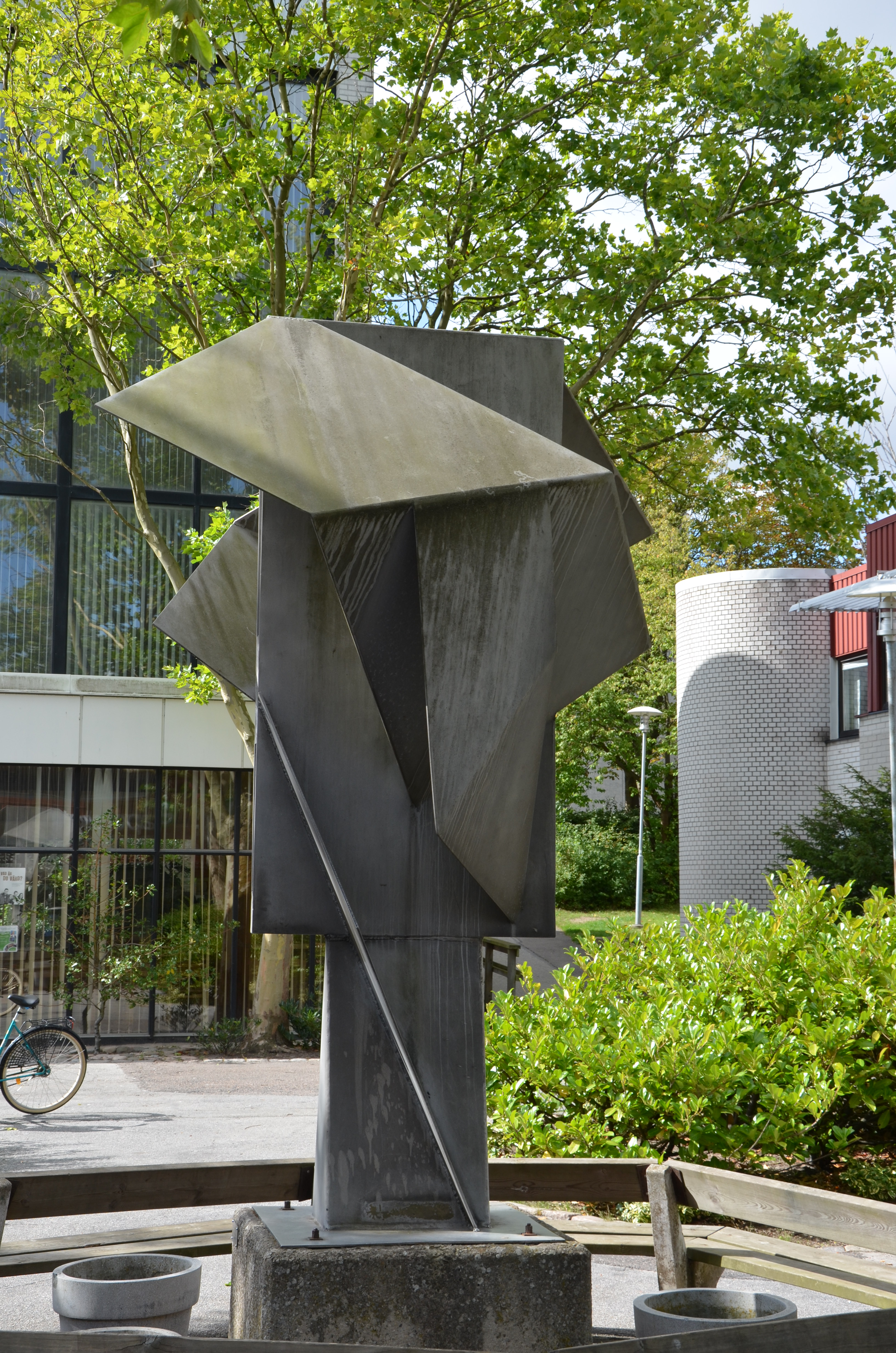 Bengt Orups Abstrakt form,1972, aluminium, Linero centrum